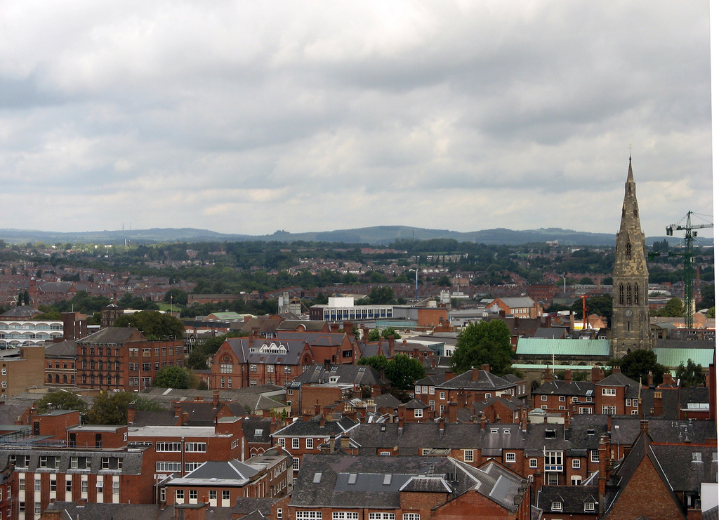 This is what I could see from my window at the office: 12th floor, Welford Place, New Walk Centre. It was facing west and the sunsets were absolutely stunning.